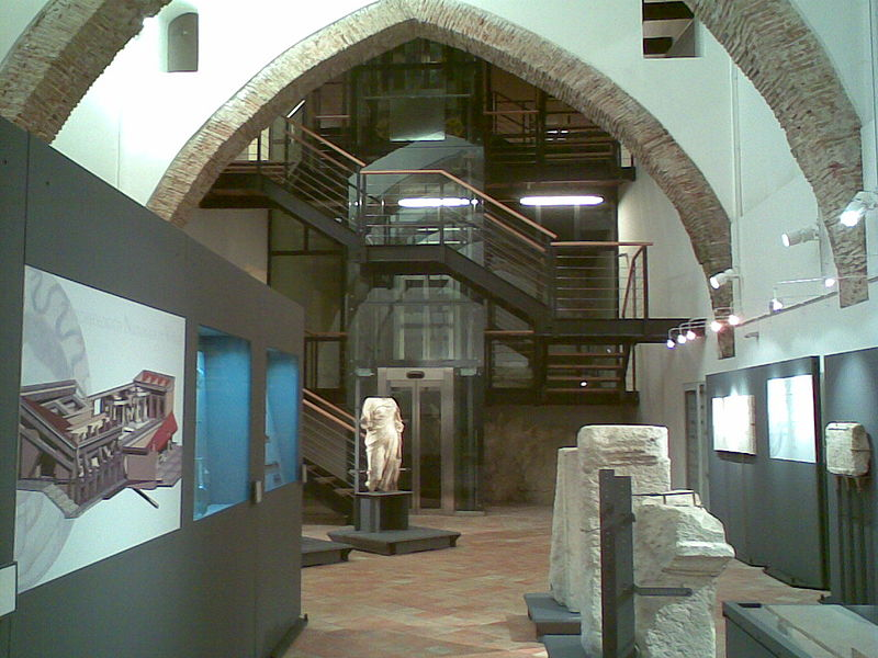 The last room of the National Archeological Museum of Volcei, in Buccino, Salerno's province